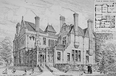 Elmstead Grange 1879 in Chistlehurst. Design by Henry Jarvis who died in 1910. This looks like architects plan/ advert. The grange was built for a merchant. Iwas the home of Ethel Bilbrough and her husband. Its now Babington House School